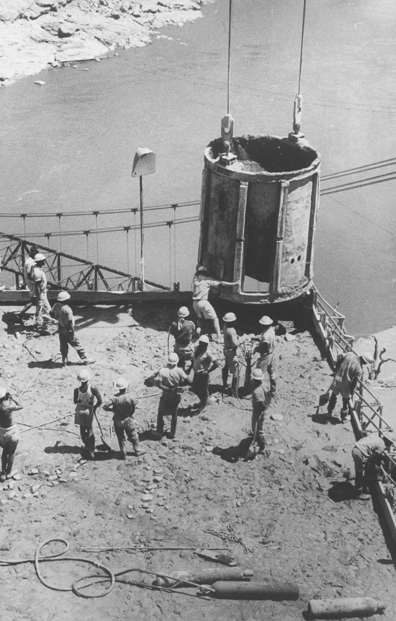 Image showing the construction of Kariba Dam.